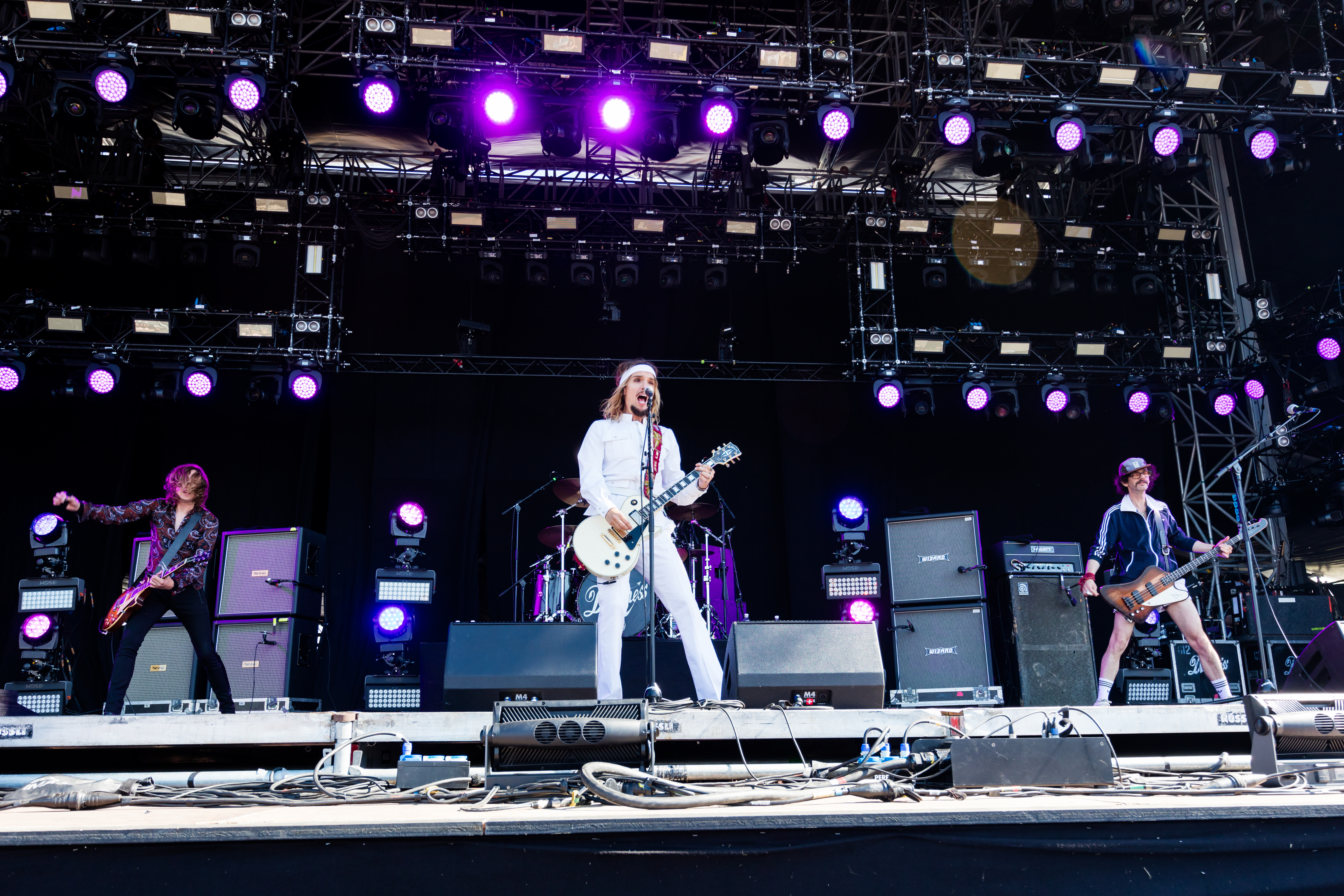 The Darkness @ Rock the Ring 2018